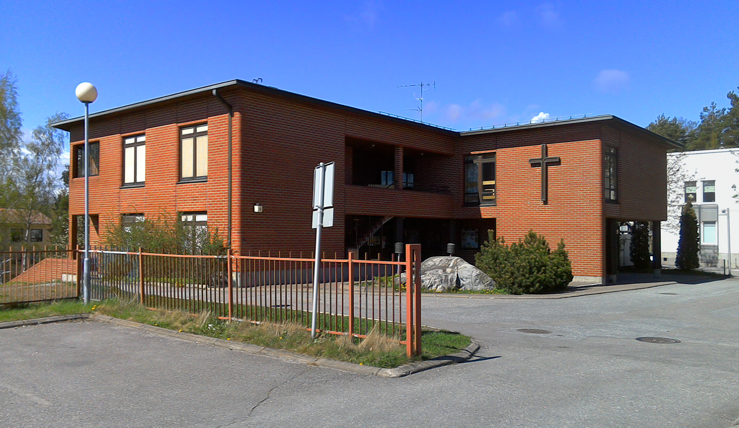 Länsimäki Church in Länsimäki, Vantaa, Finland (Jpeg)